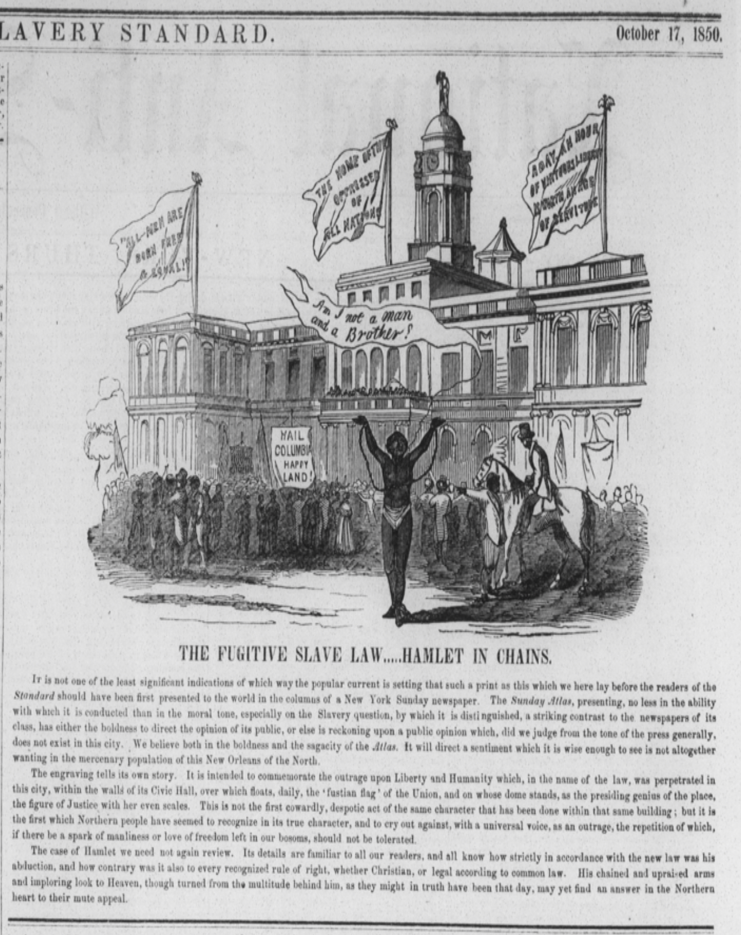 Note the banners. James Hamlet, first person returned to slavery under the Fugitive Slave Law of 1850, in front of w: New York City Hall